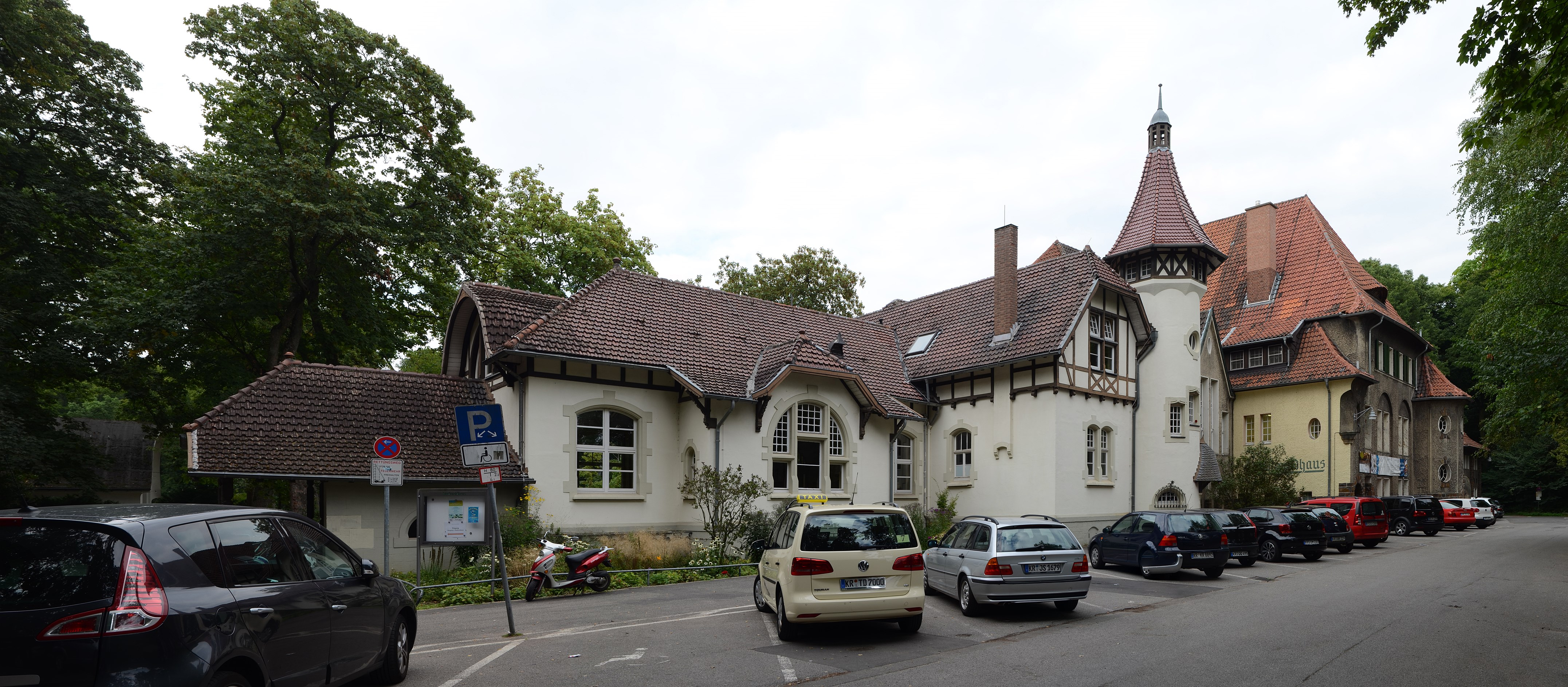 Krefeld (North Rhine-Westphalia, Germany) – urban forest building – panoramic view of the south side This image shows a heritage building in Germany, located in the North Rhine-Westphalian city Krefeld (no. 94). This photograph was taken with a Nikon D7000